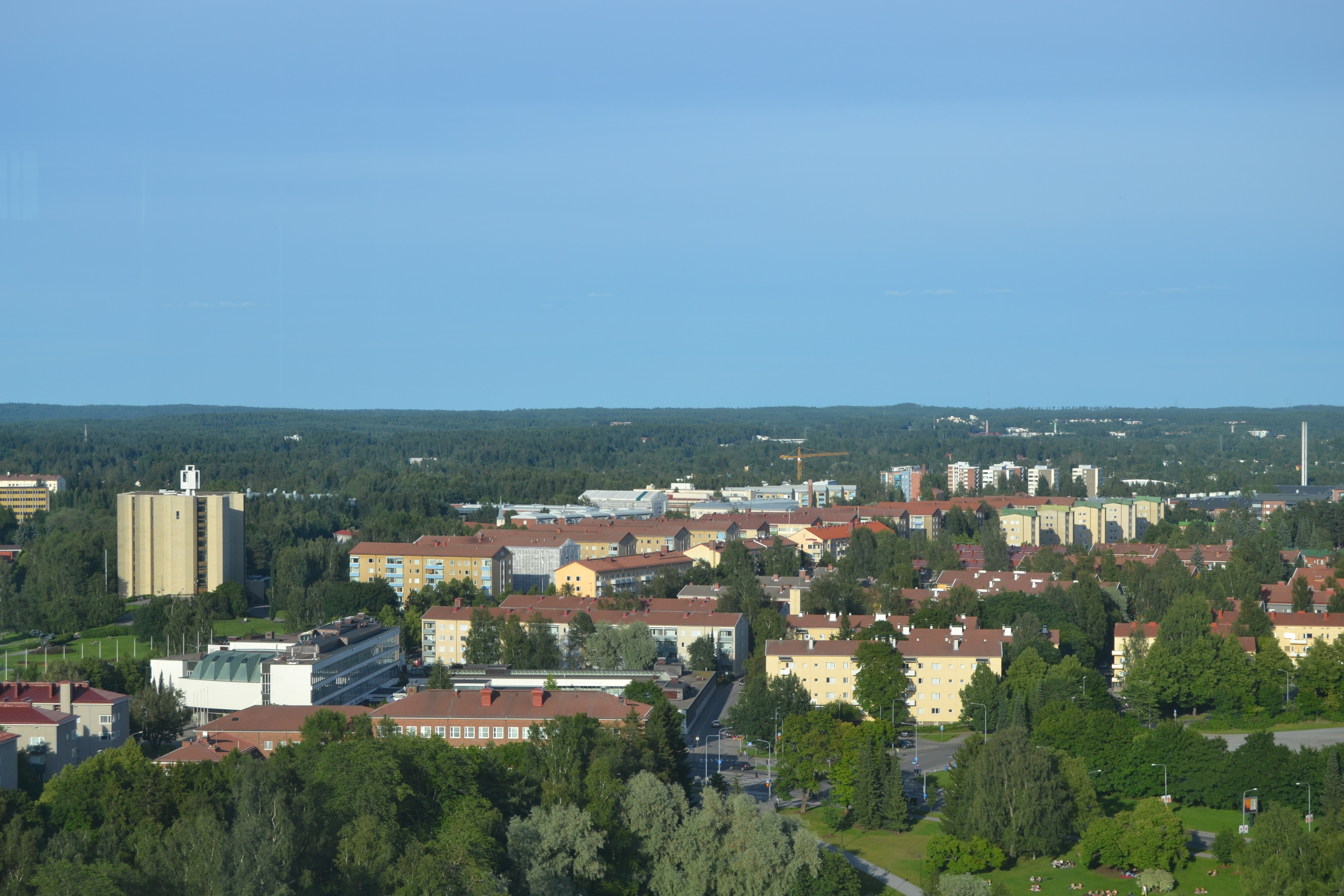 Kaleva from Hotel Torni Tampere in Tampere, Finland